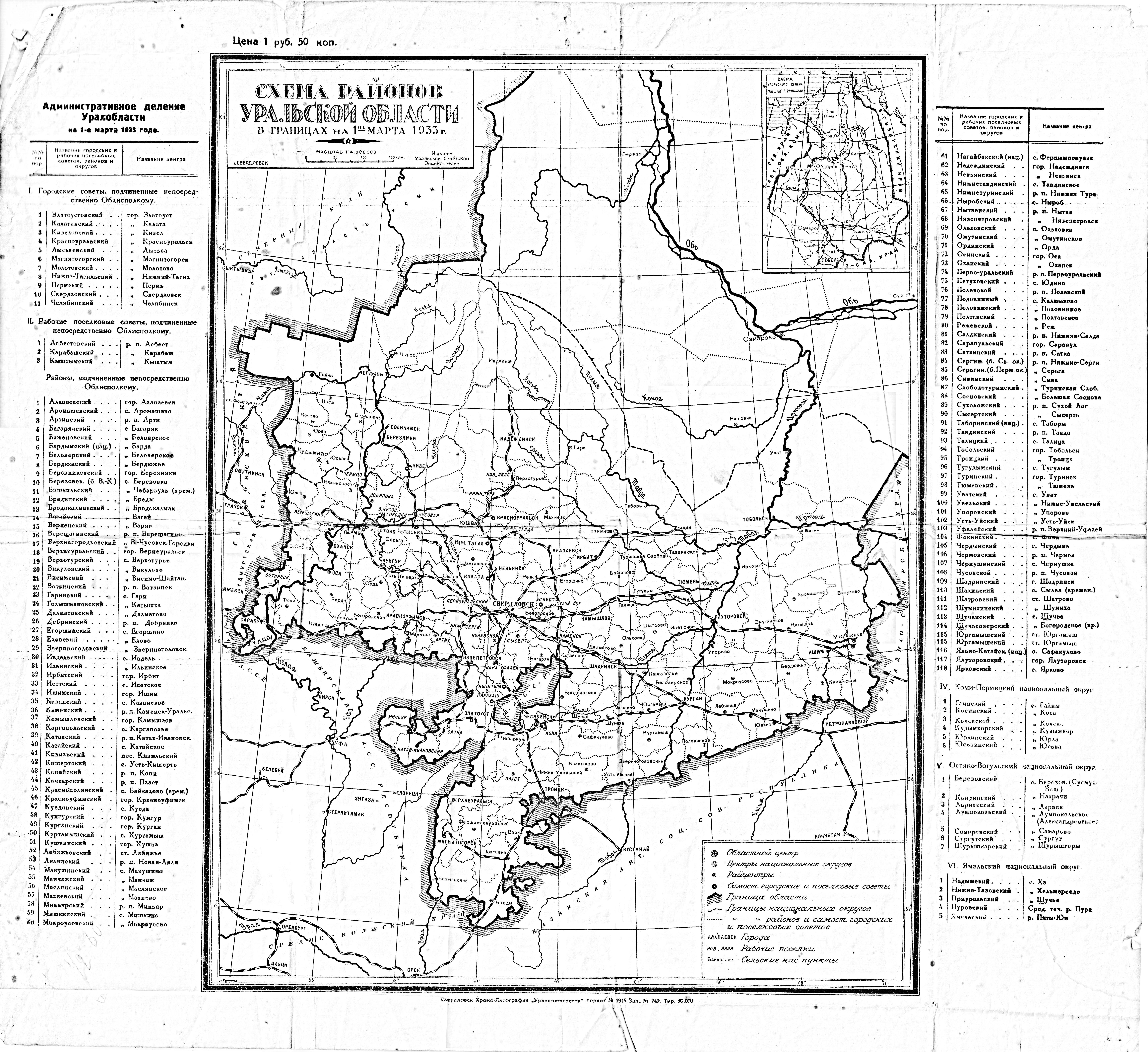 Map of Uralskaya Oblast (Uralic Region) of RSFSR at March 1st 1933